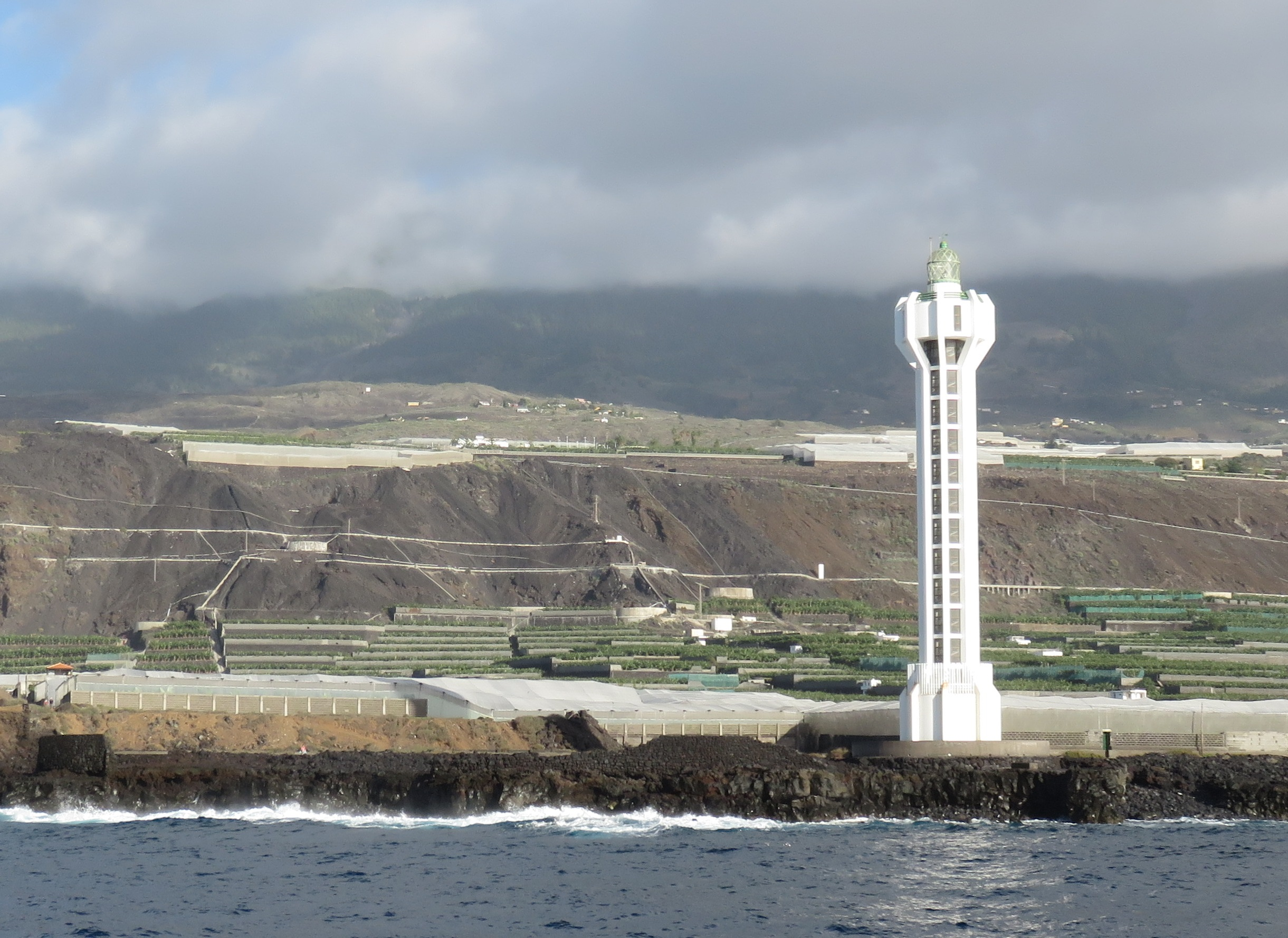 Faro de Punta Lava, Tazacorte